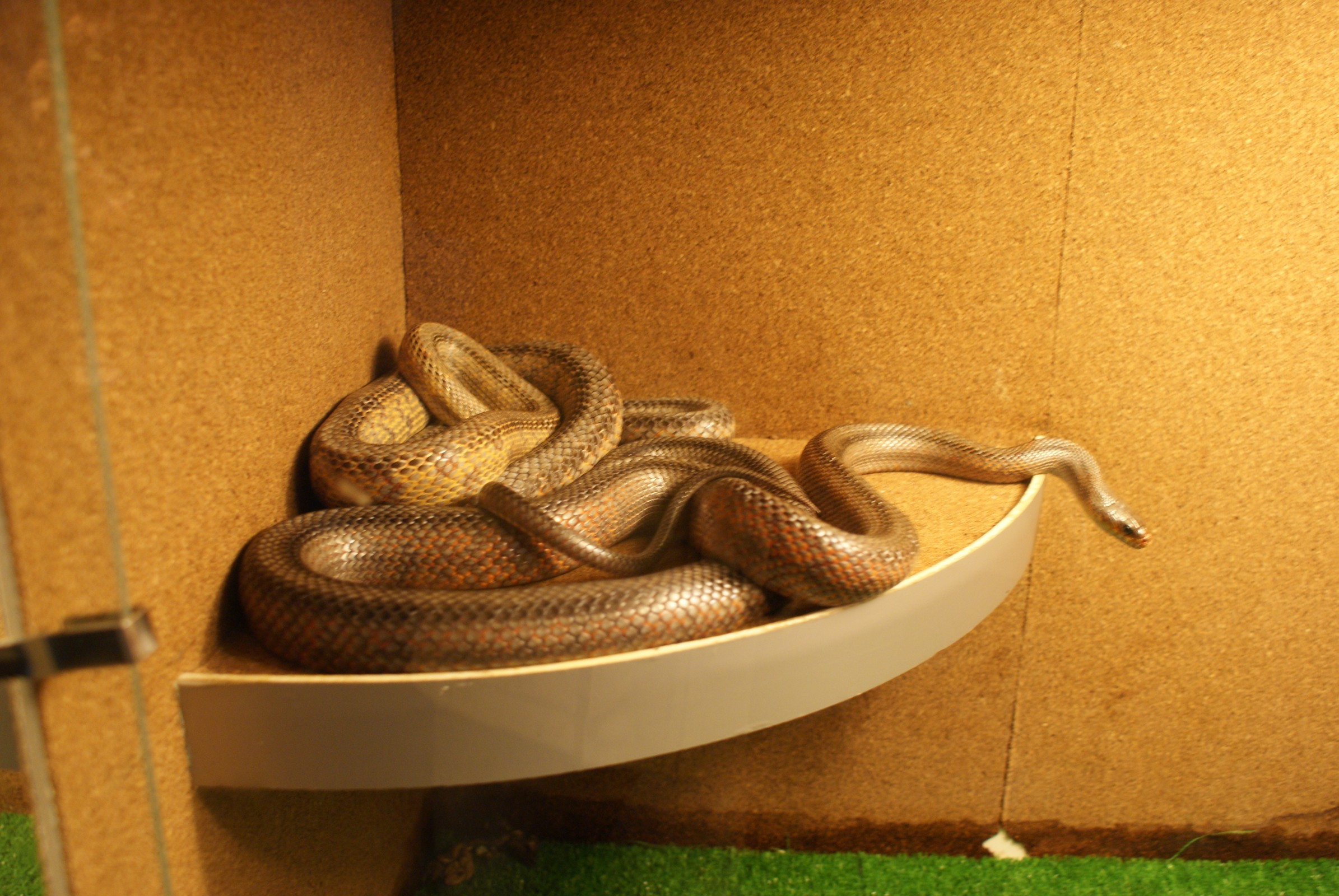 Pantherophis bairdi in Minsk Zoo